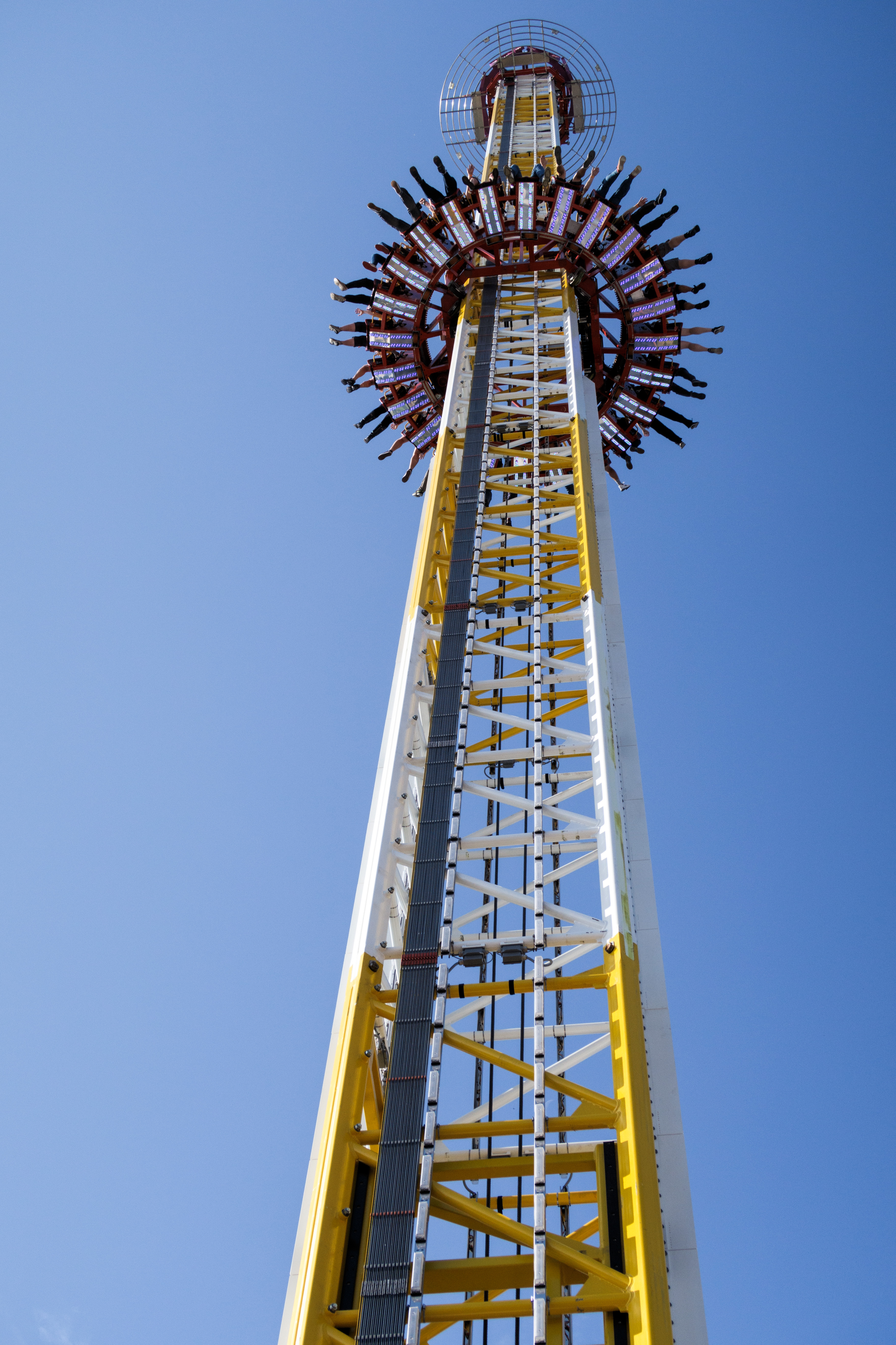 Freefall tower Hangover – The Tower, falling gondola